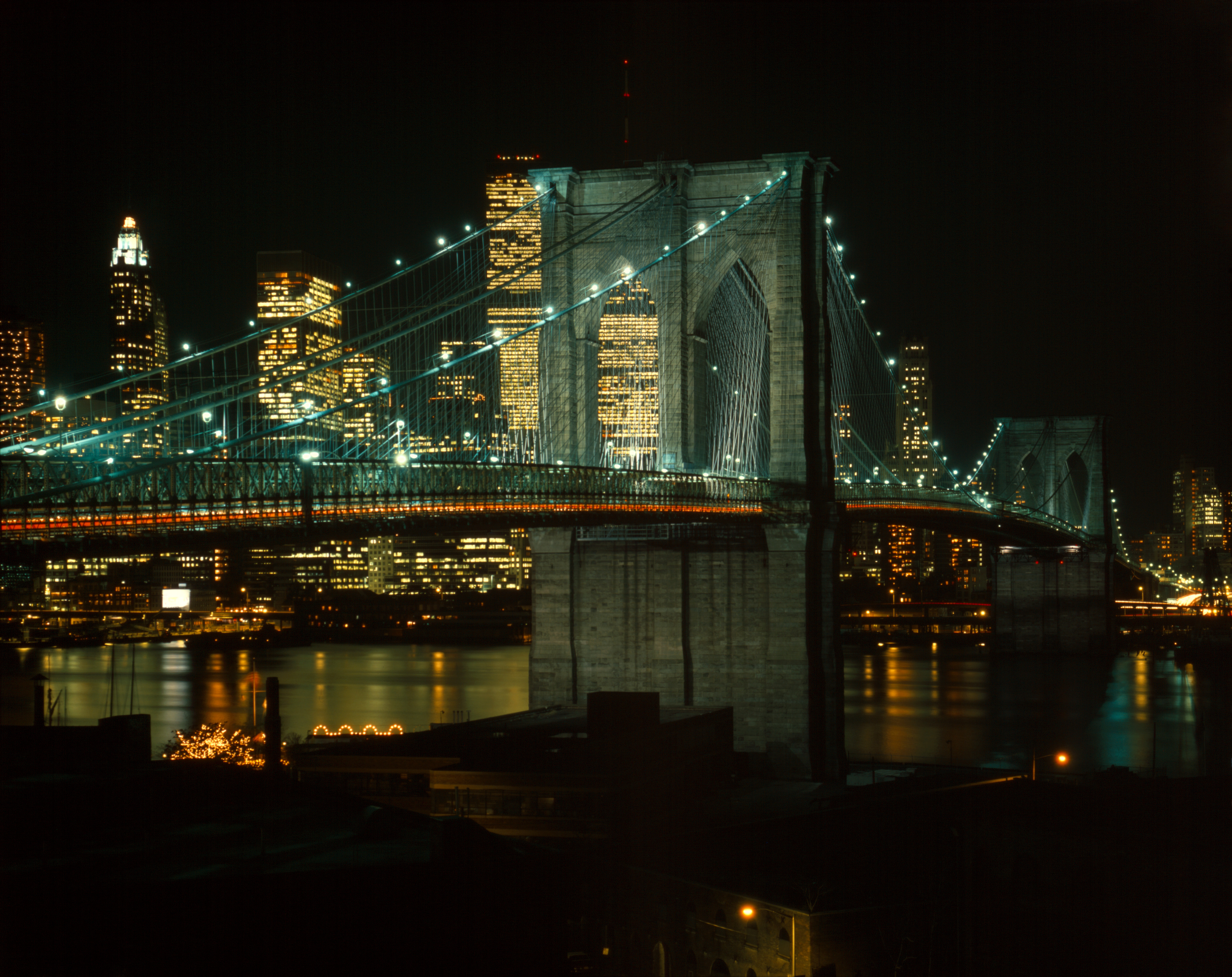 Brooklyn Bridge, Spanning East River between Brooklyn & Manhattan, New York City, New York County, NY Library of Congress information: TITLE: Brooklyn Bridge, Spanning East River between Brooklyn & Manhattan, New York City, New York County, NY CALL NUMBER: HAER, NY,31-NEYO,90- DATE: Documentation compiled after 1968. NOTE: Survey number HAER NY-18 Building/structure dates: 1869 SUBJECTS: NEW YORK--New York County--New York City suspension bridges COLLECTION: Historic American Engineering Record (Library of Congress) REPOSITORY: Library of Congress, Prints and Photograph Division, Washington, D.C. 20540 USA CARD #: NY1234 Taken in 1982.